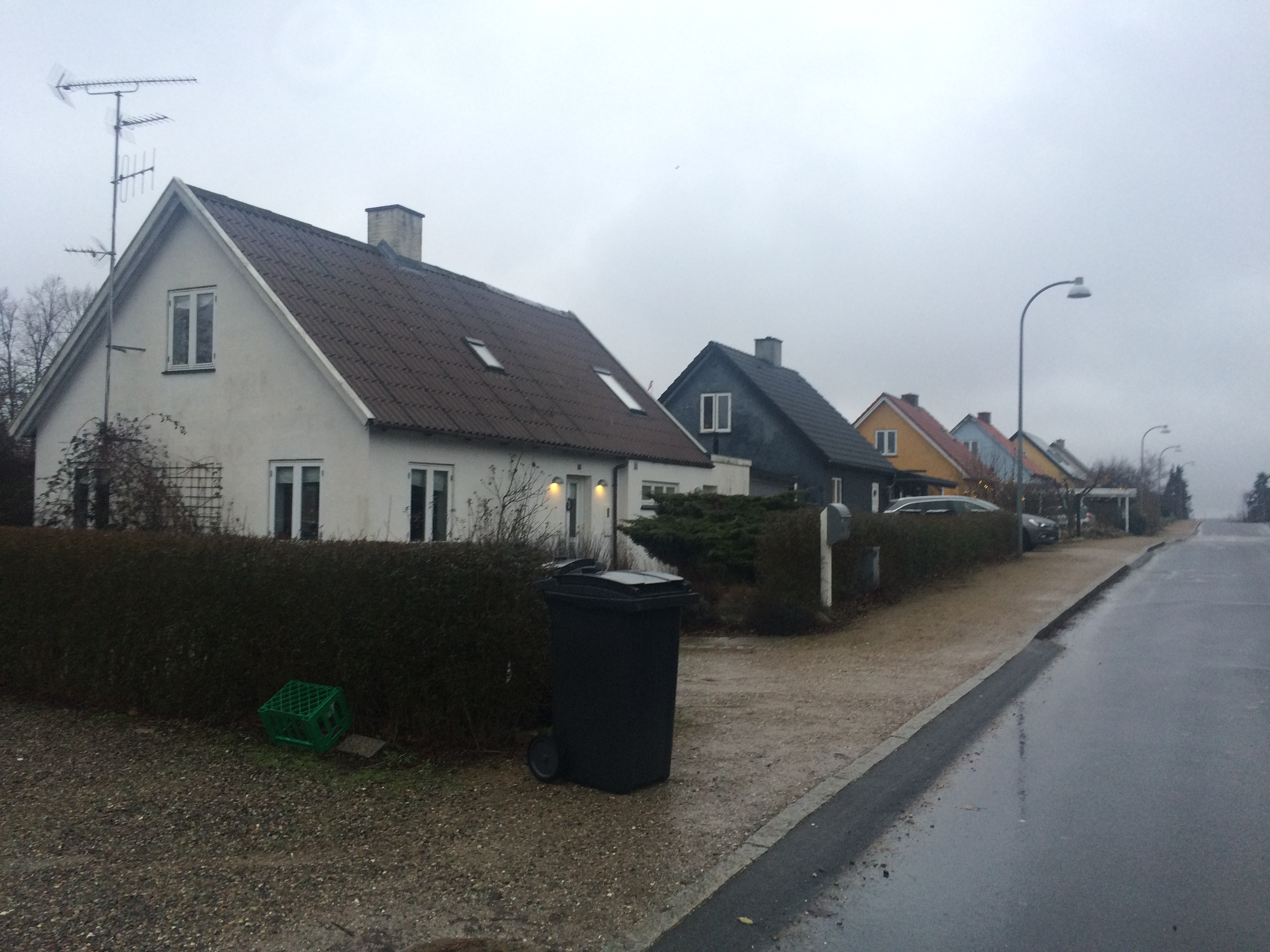 Typical houses in the housing area Måløvhøj in Ballerup Municipality, Denmark